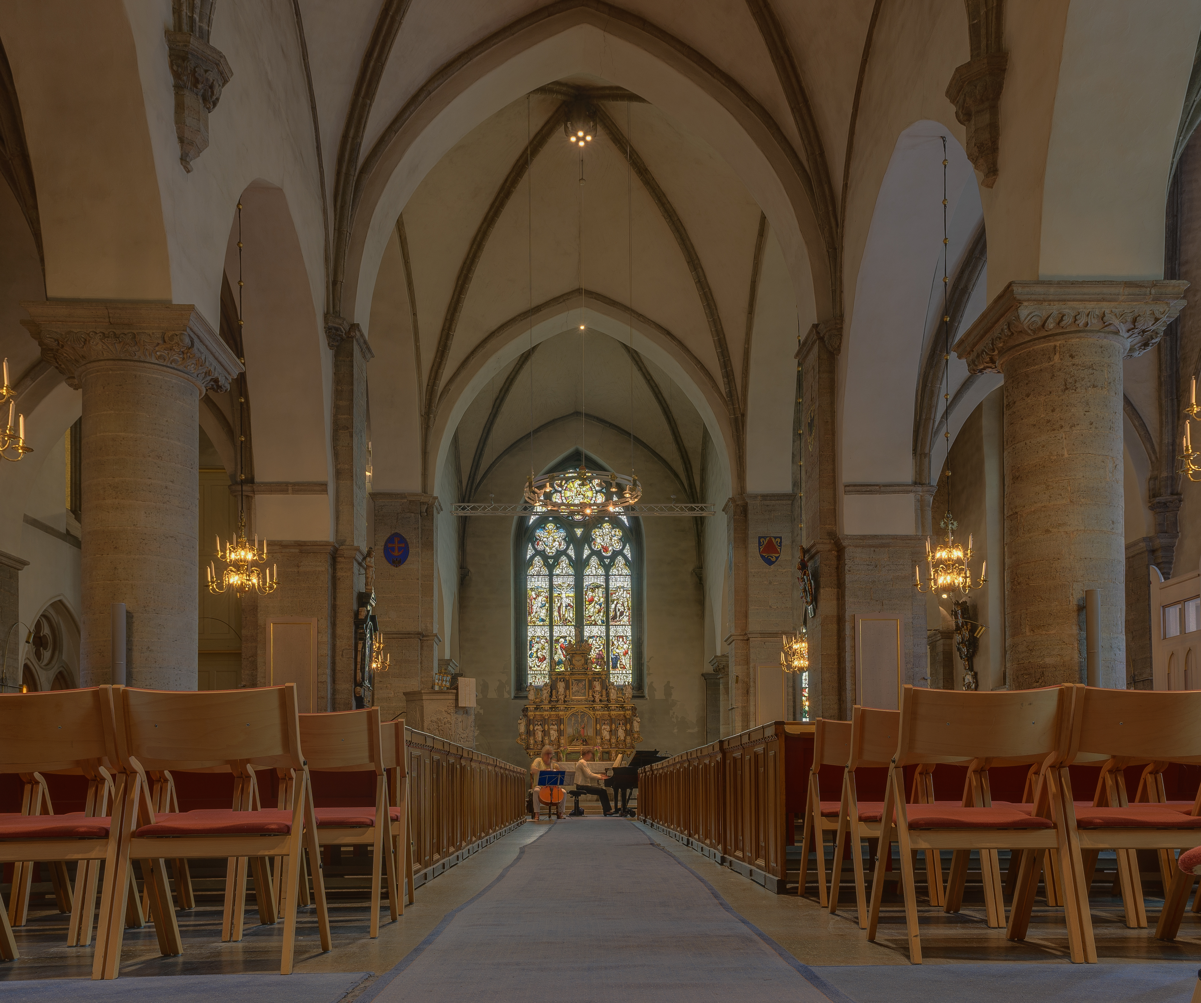 Sankt Nicolai kyrka (church), Örebro.